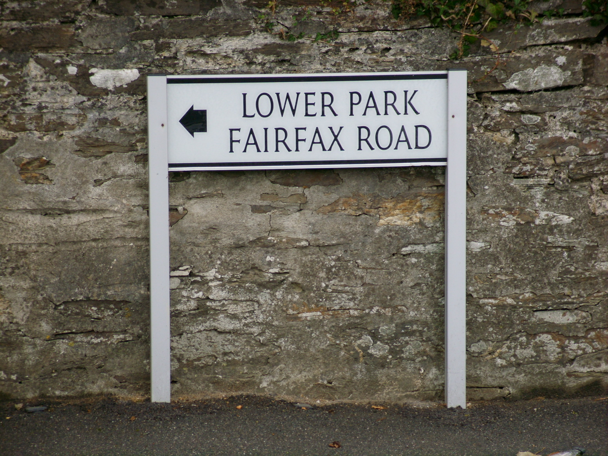 own pic